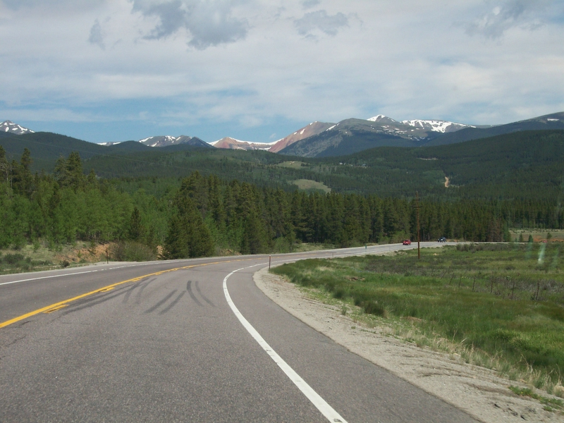 Kenosha Pass decent to the north.